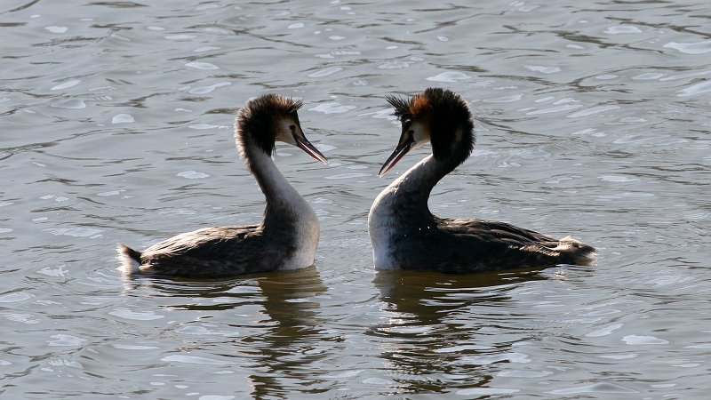 Great Crested Grebe (Podiceps cristatus)